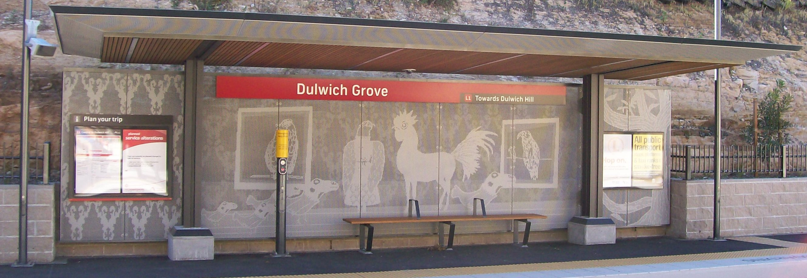 Sydney Light Rail Dulwich Grove station shelter